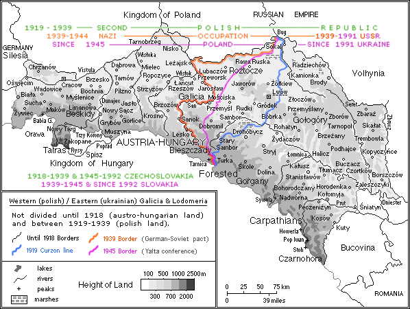 Tales of Galicia (20th century), background based on Mariusz Paździora's map [:image:Map of the Kingdom of Galicia, 1914.jpg]